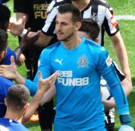 Martin Dubravka 2018